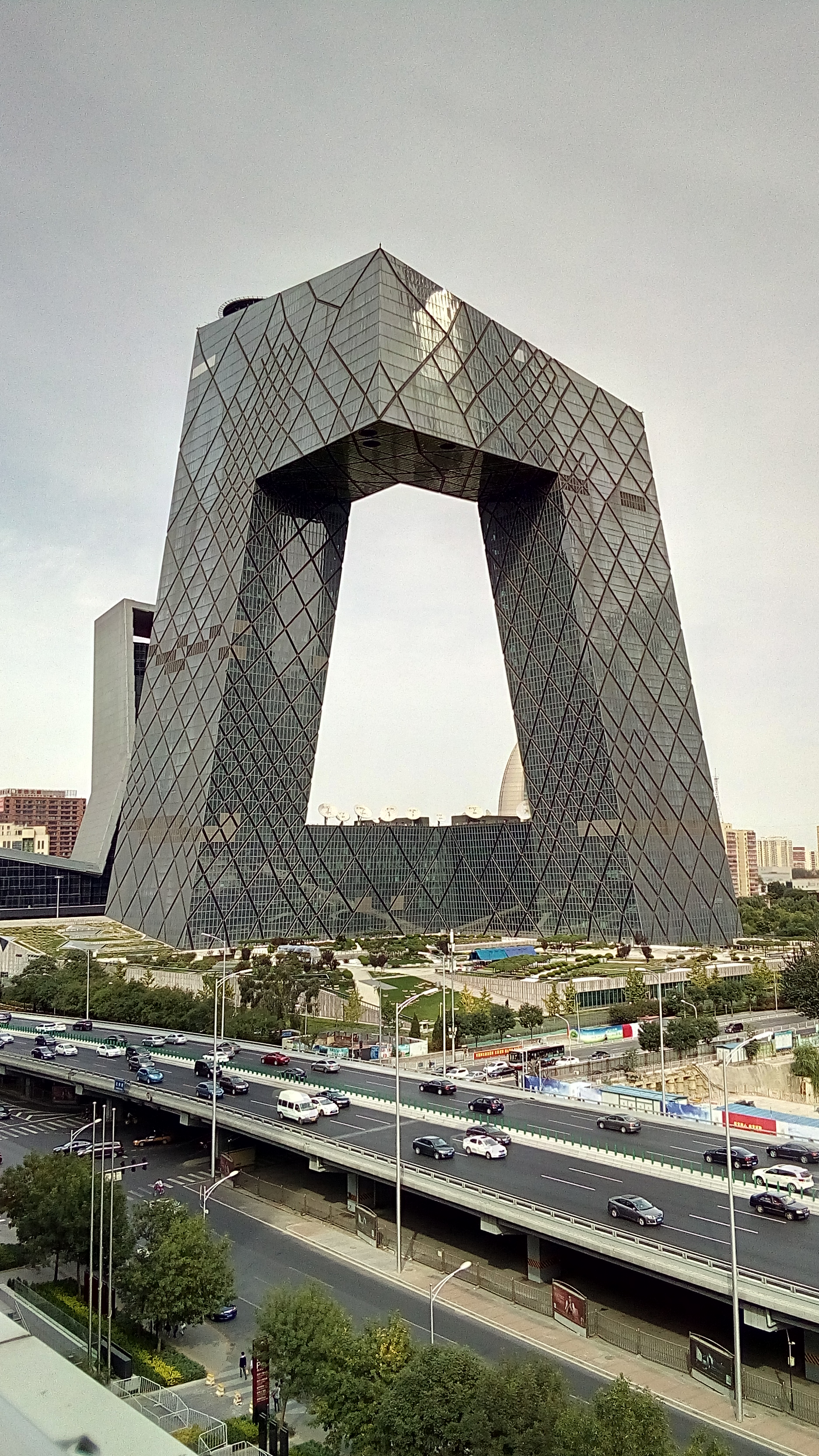 The building was designed by Rem Koolhaas and Ole Scheeren